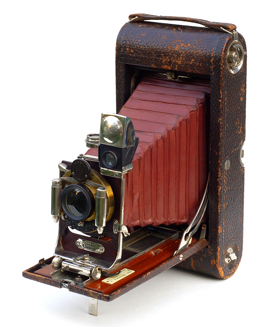 The 3A FPK is known as a postcard format camera, producing 3 ¼" x 5 ½" images on 122 film. Kodak made many variations of the 3A FPK, but this particular example is a Model B. The serial number is stamped onto the front support foot, dating this camera to sometime between September 1903 and February 1904 (later ones have "KODAK" on the foot). Features include a leather-covered body made from wood and aluminum, a rotating finder with level, and a Bausch & Lomb lens and shutter. So far, this is my oldest camera.